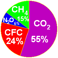 The proportion of greenhouse gas to greenhouse effect.